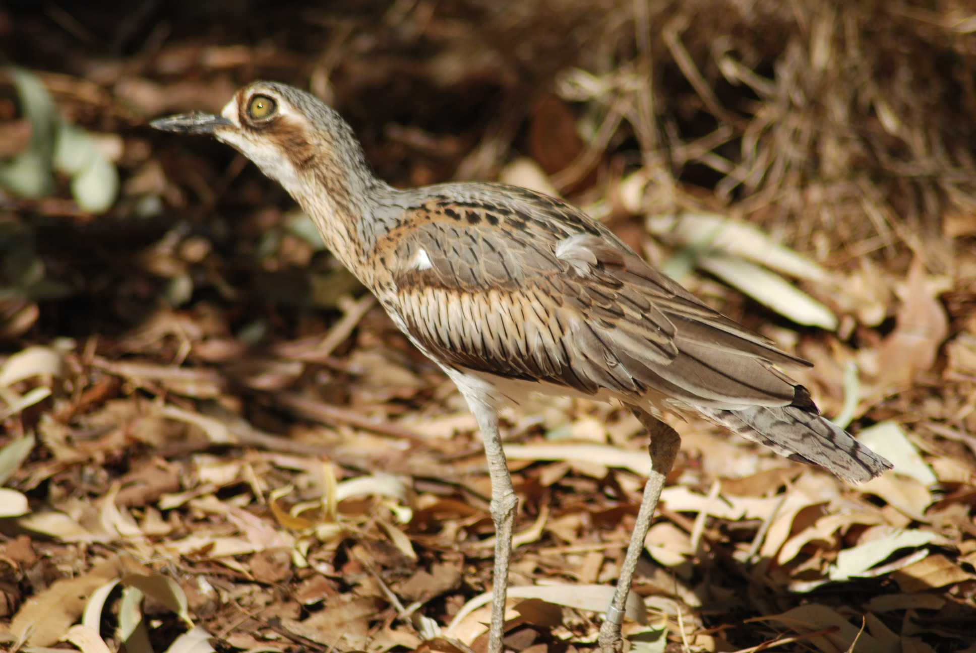 A Bush Stone-curlew at Alice Springs Desert Park, Northern Territory, Australia.